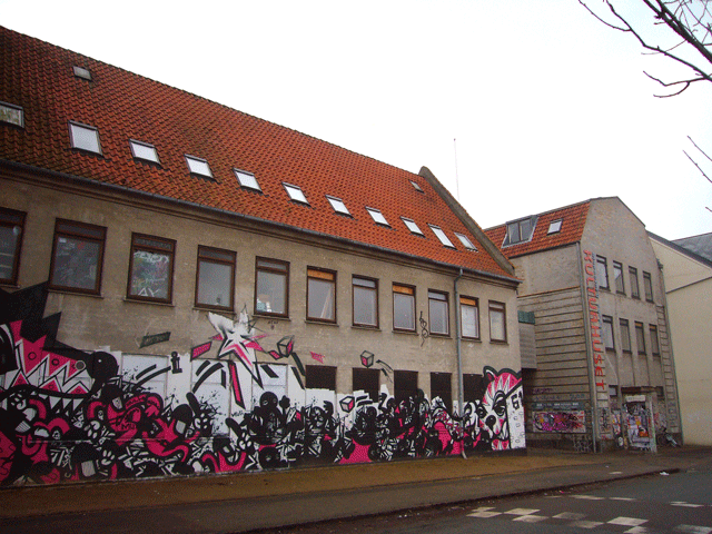 The new Youth House on Dortheavej 61 seen from Dortheavej towards Tomsgårdsvej